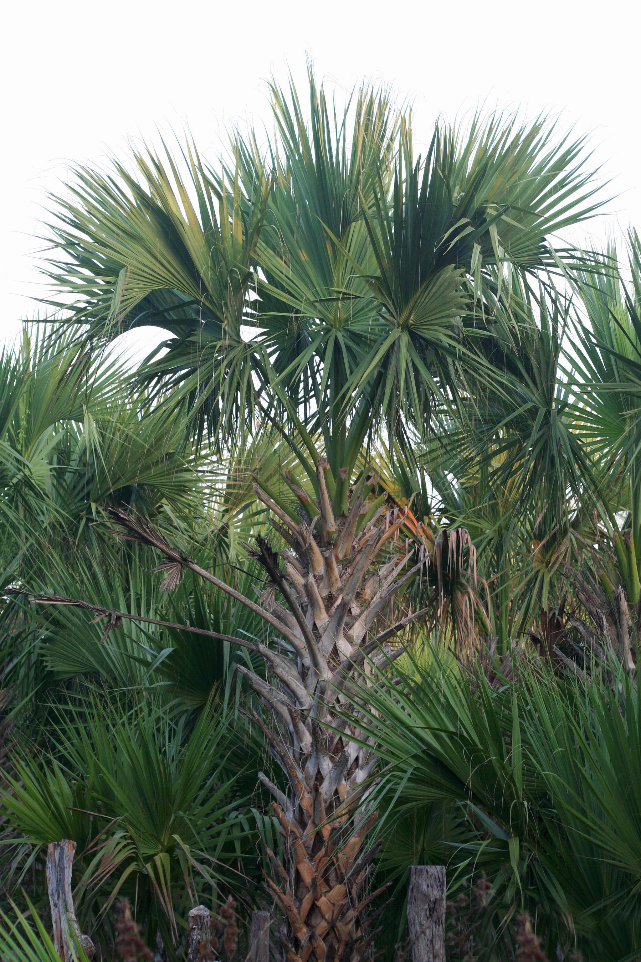 Sabal mexicana plant, growing in a plantation along the coast of Oaxaca, Mexico.